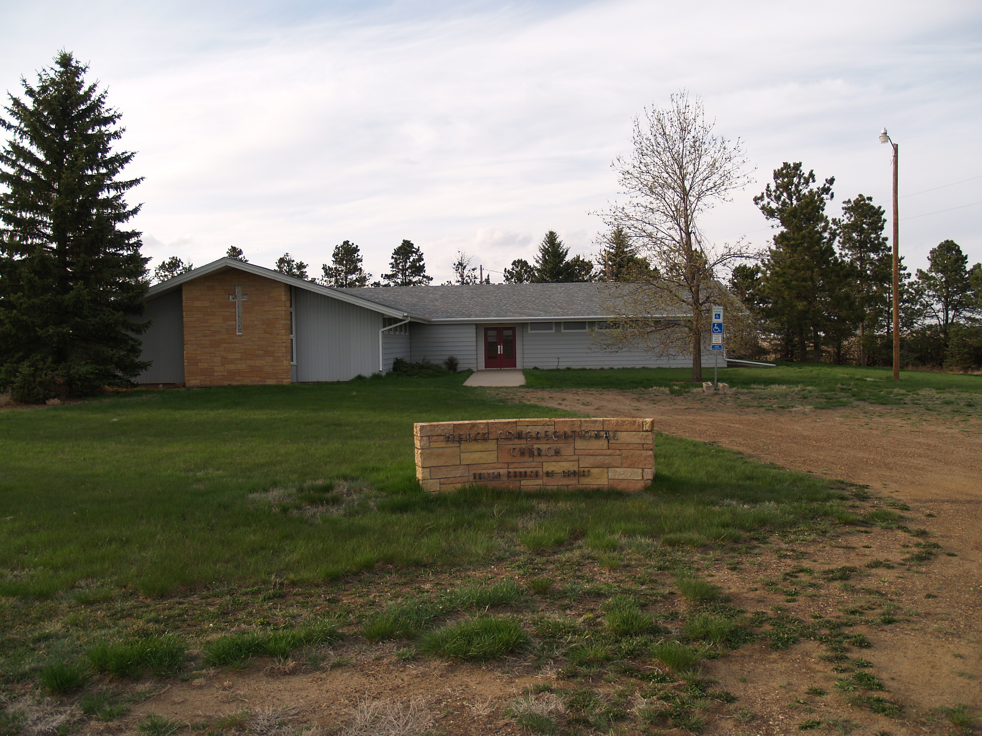 Pierce Congregational Church Pierce, Woodberry Township, Slope County, North Dakota